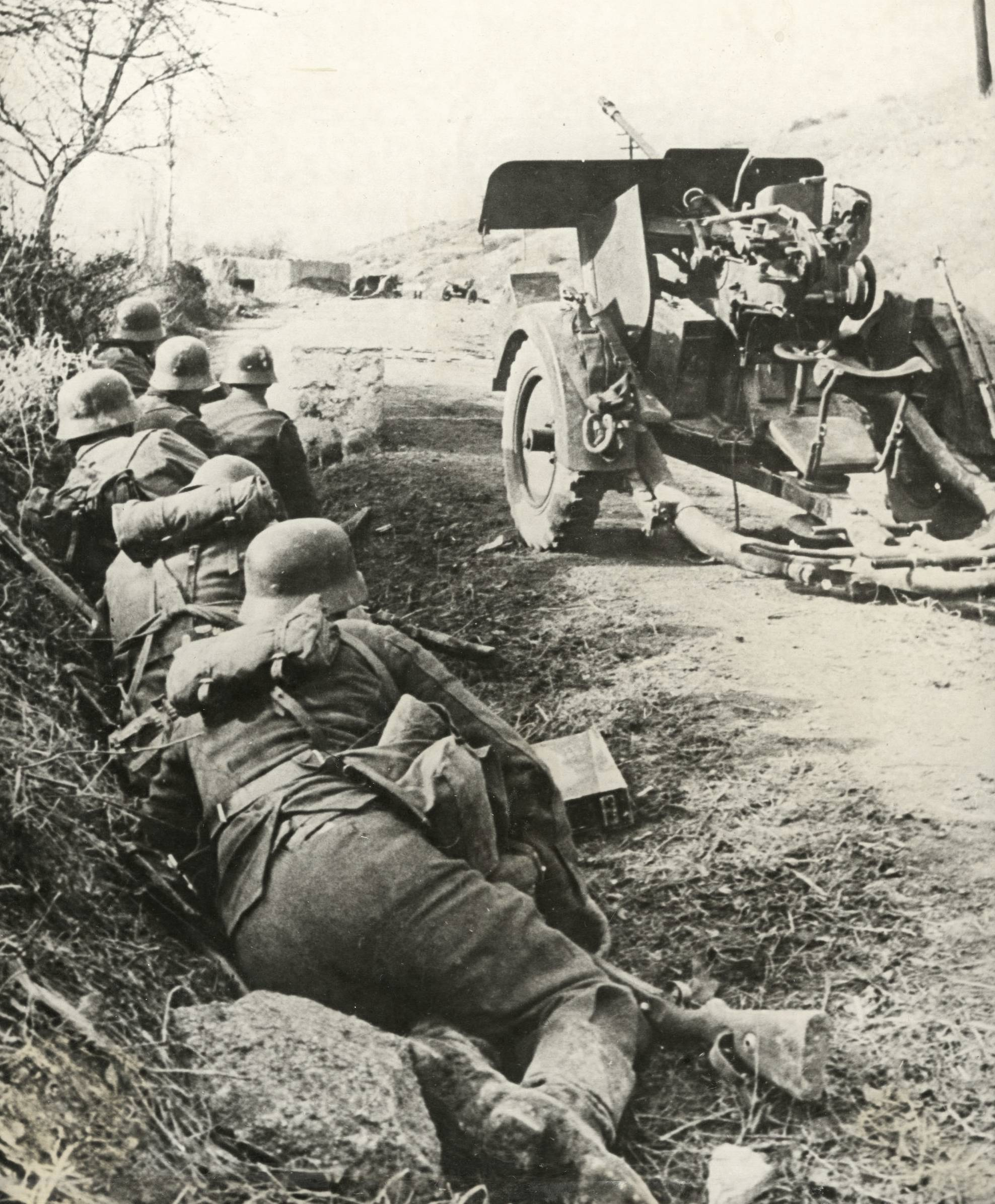 Blue Division Members during World War II